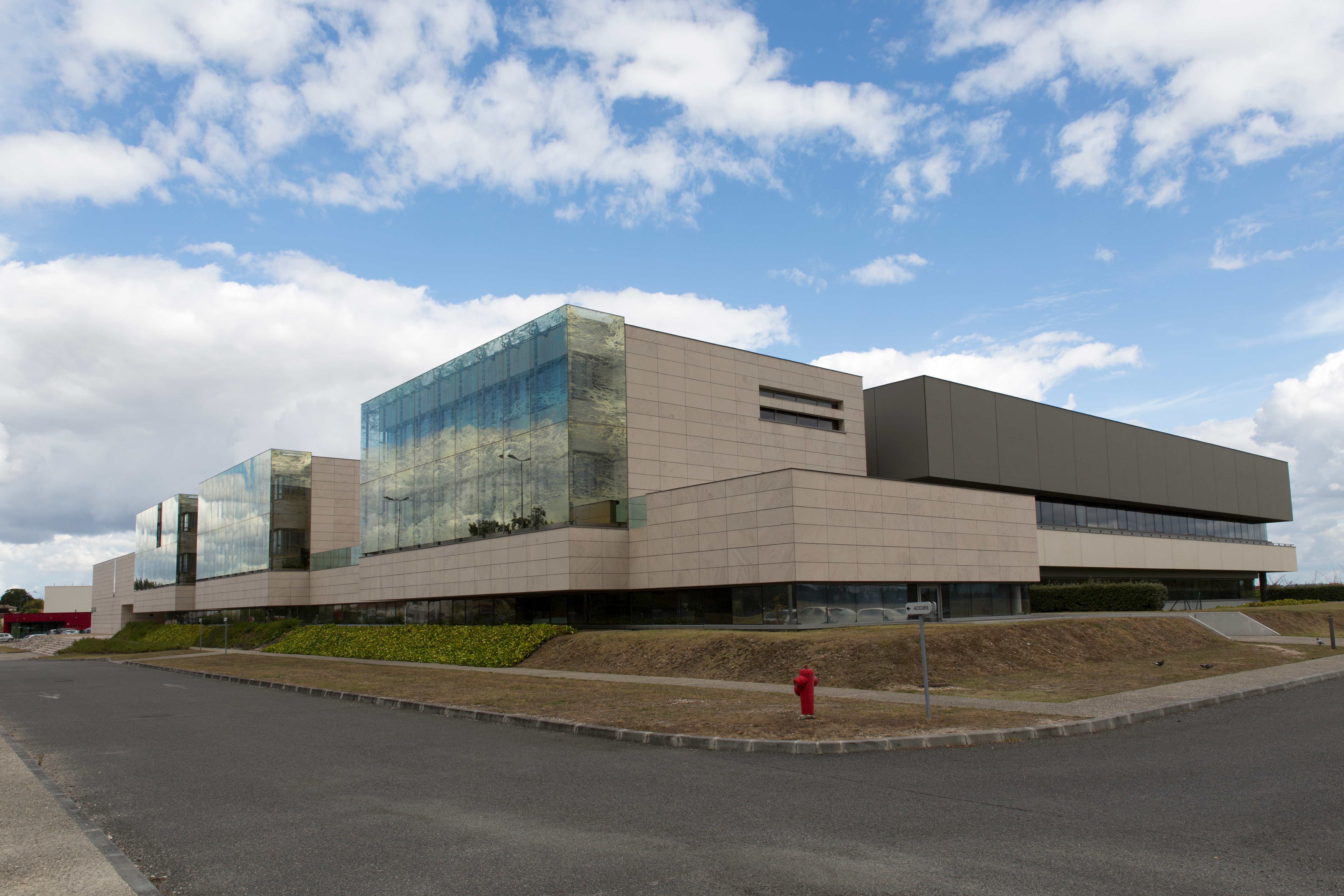 Site de la Grande Ferrade